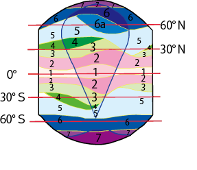 This is the map of Flohn climate classification.